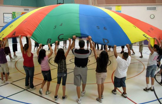 kids using parachute